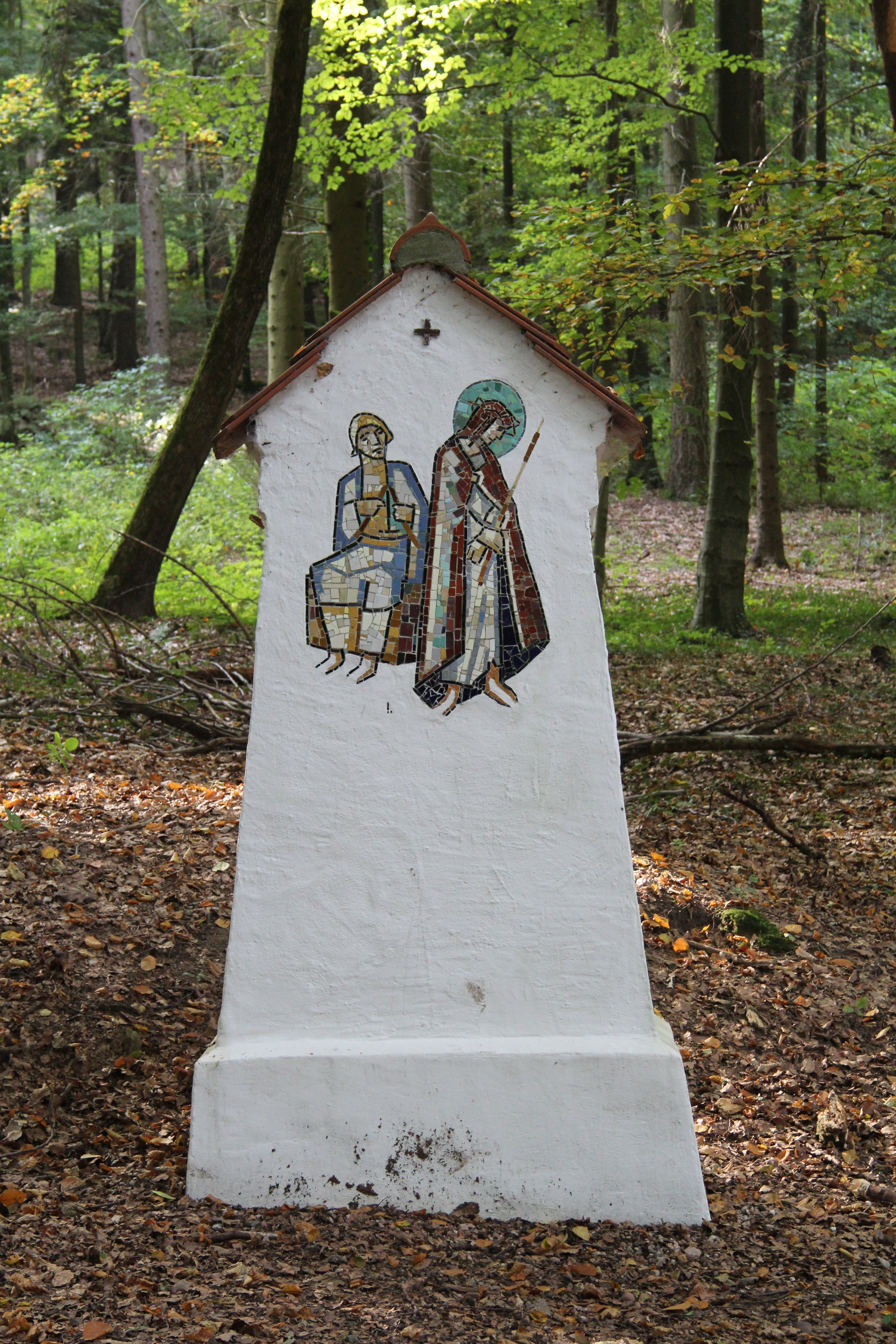 Aschaffenburg-Schweinheim, Bavaria, Germany, Stations of the Cross at Erbig hill, station 1